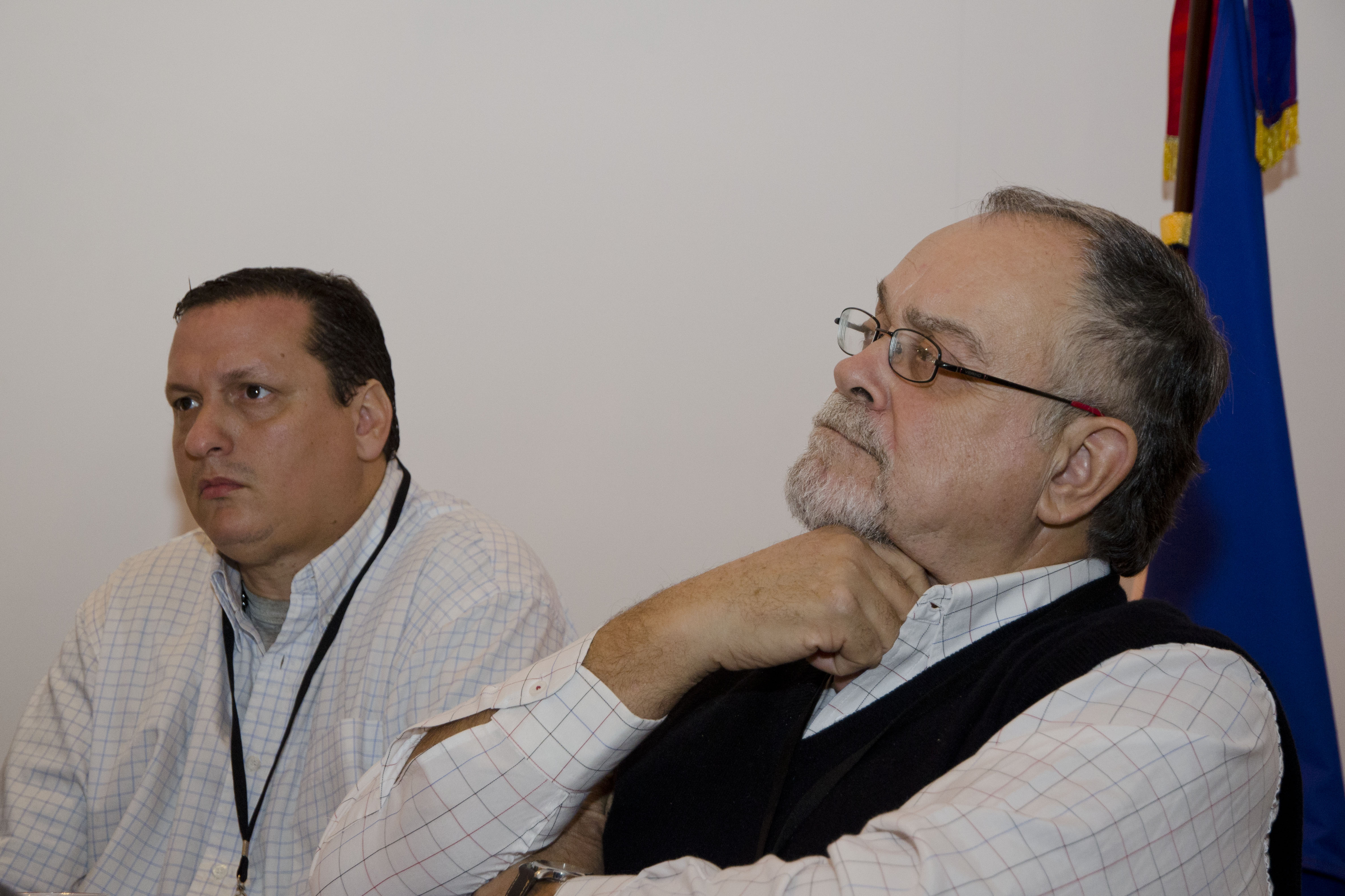 Paris, 24 Marzo 2014 - Daniel Filmus, Liliana Bodoc, Hernán Brienza y Mempo Giardinelli participaron of the mesa "Falklands in the literary" in from pabellón Argentine del Salon del Libro de París 2014. Fotos: Augusto Starita / Secretaría de Cultura de the Presidencia of the nation.